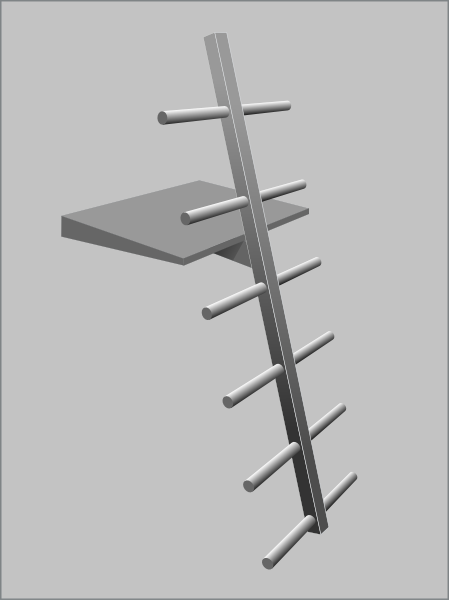 Christmas tree style diver's boarding ladder